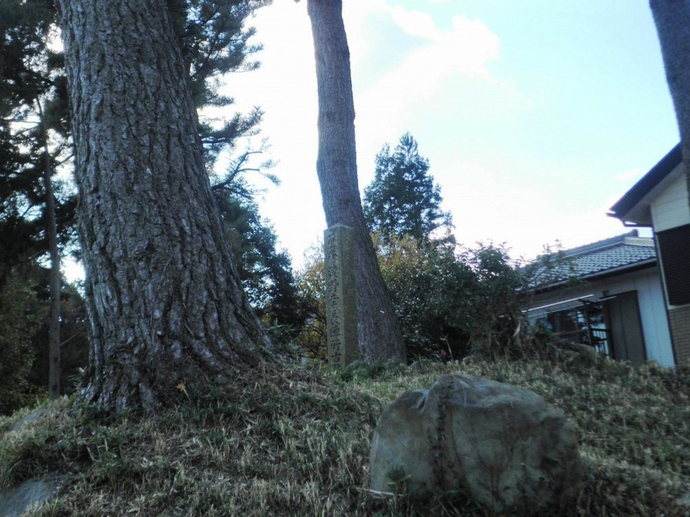 Site of Asano Yoshinaga's position in the Battle of Sekigahara.